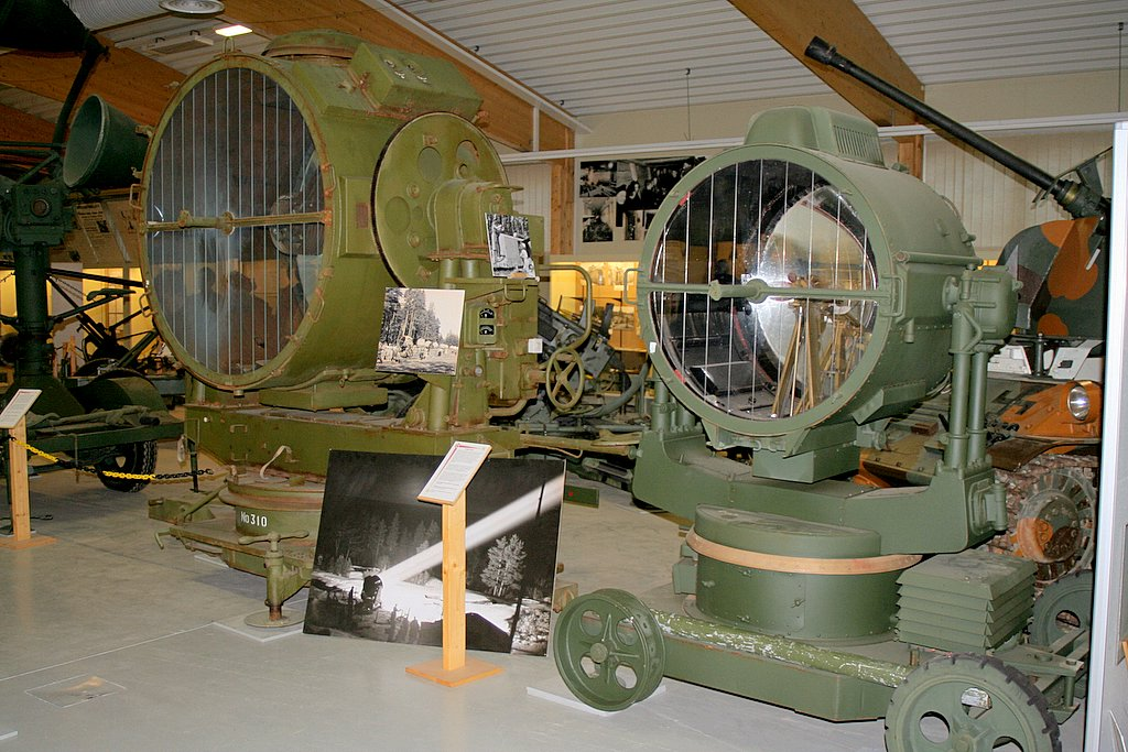 Two searchlights used during the WWII in Finland. These two exhibits are in the anti-aircraft museum (Ilmatorjuntamuseo) in Hyrylä of Tuusula, Finland.